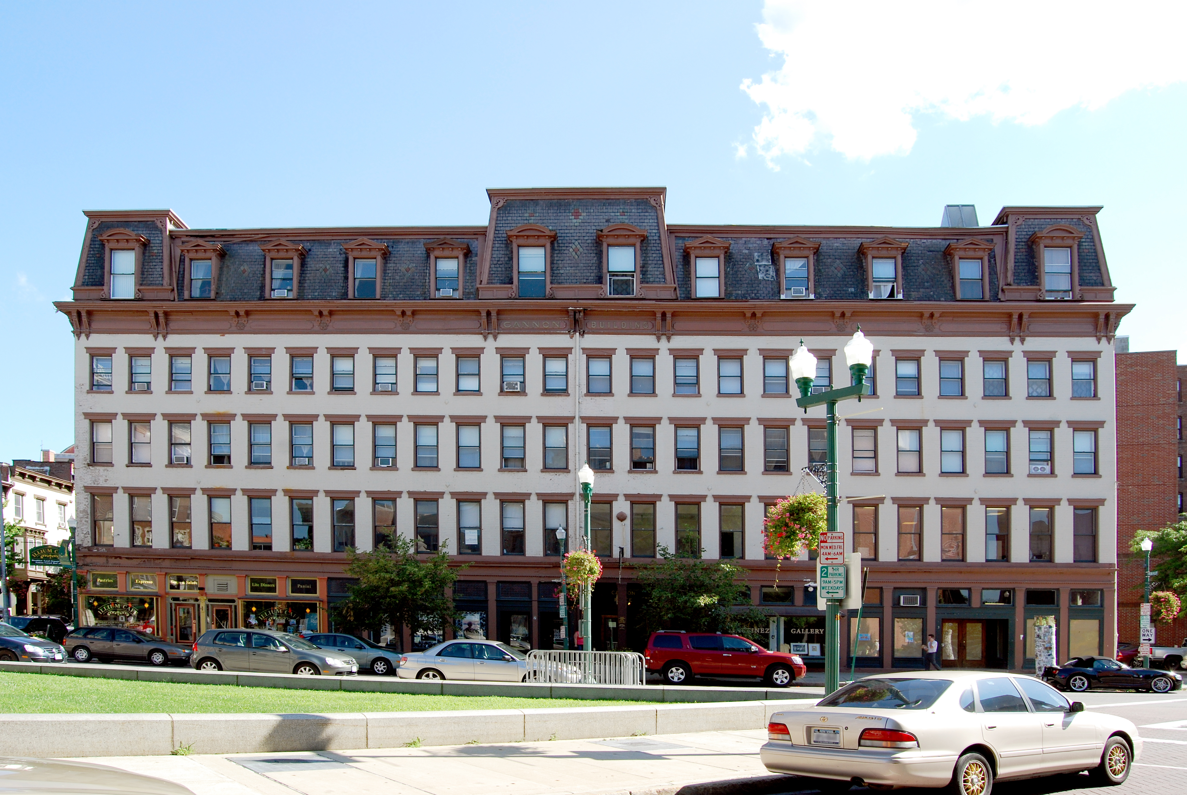 Cannon Building in Troy, New York, United States, added to the National Register of Historic Places in 1970. It is also a contributing property of the Central Troy Historic District.